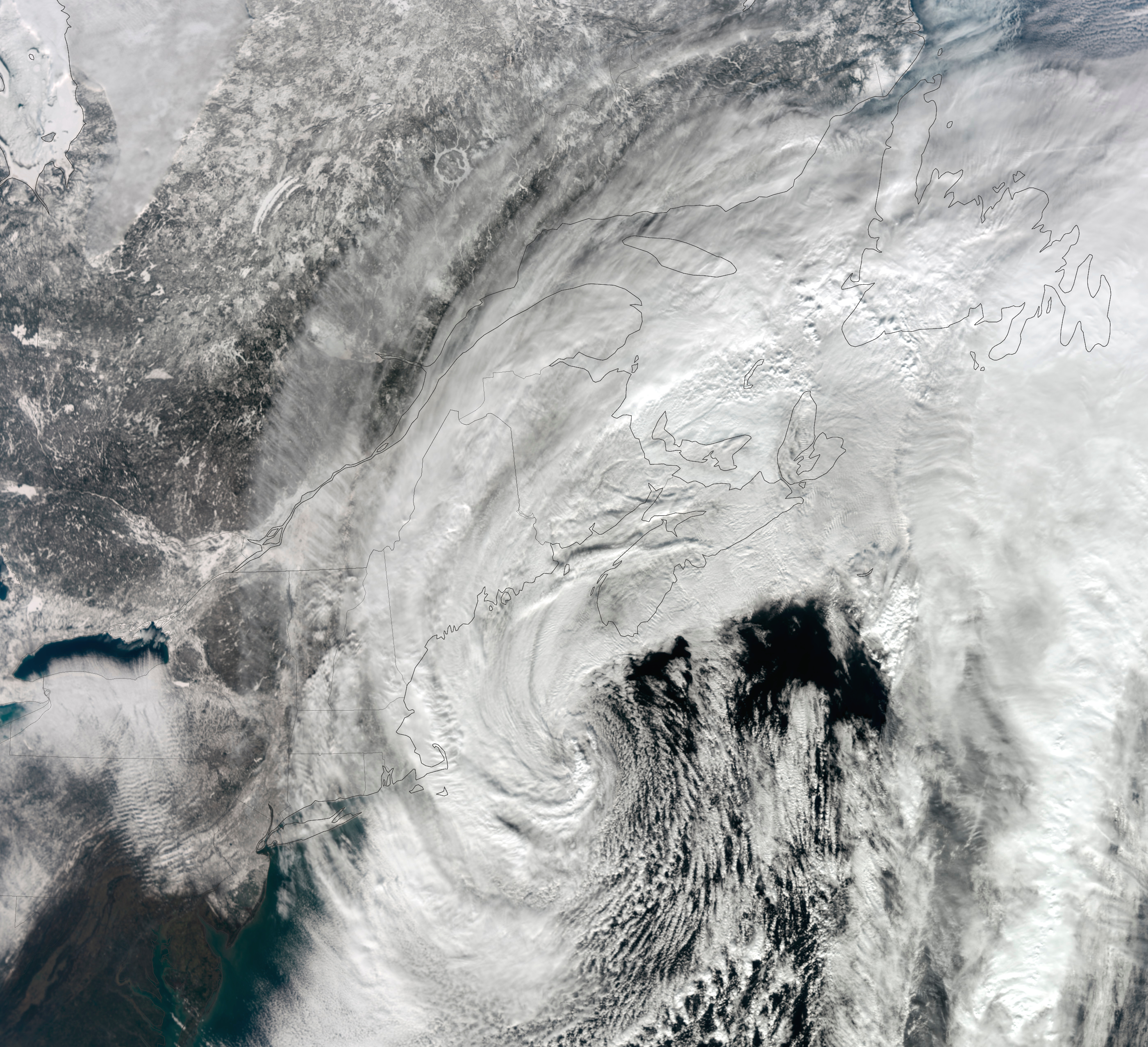 Satellite image by the Suomi NPP satellite of a large extratropical storm off the United States East Coast.